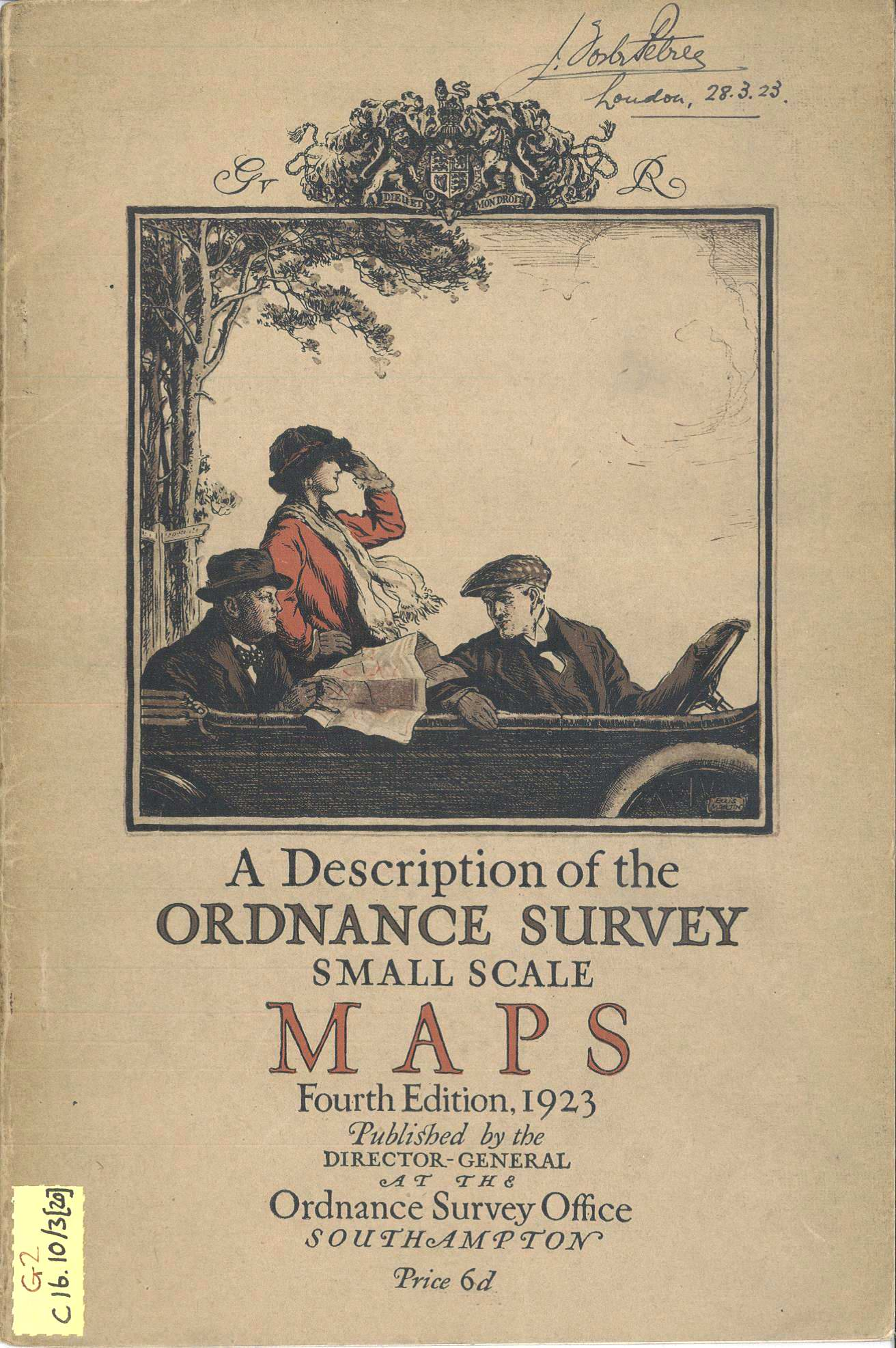 England and Wales/Scotland Tourist maps 1920. Also used on A description of the Ordnance Survey Small Scale Maps 1919, 1920, 1921, 1923, 1925, 1927 details from Browne, John Paddy (1991). Map Cover Art: A pictorial history of Ordnance Survey cover illustrations, p. 128. Ordnance Survey. ISBN 978-0319--00234-6.